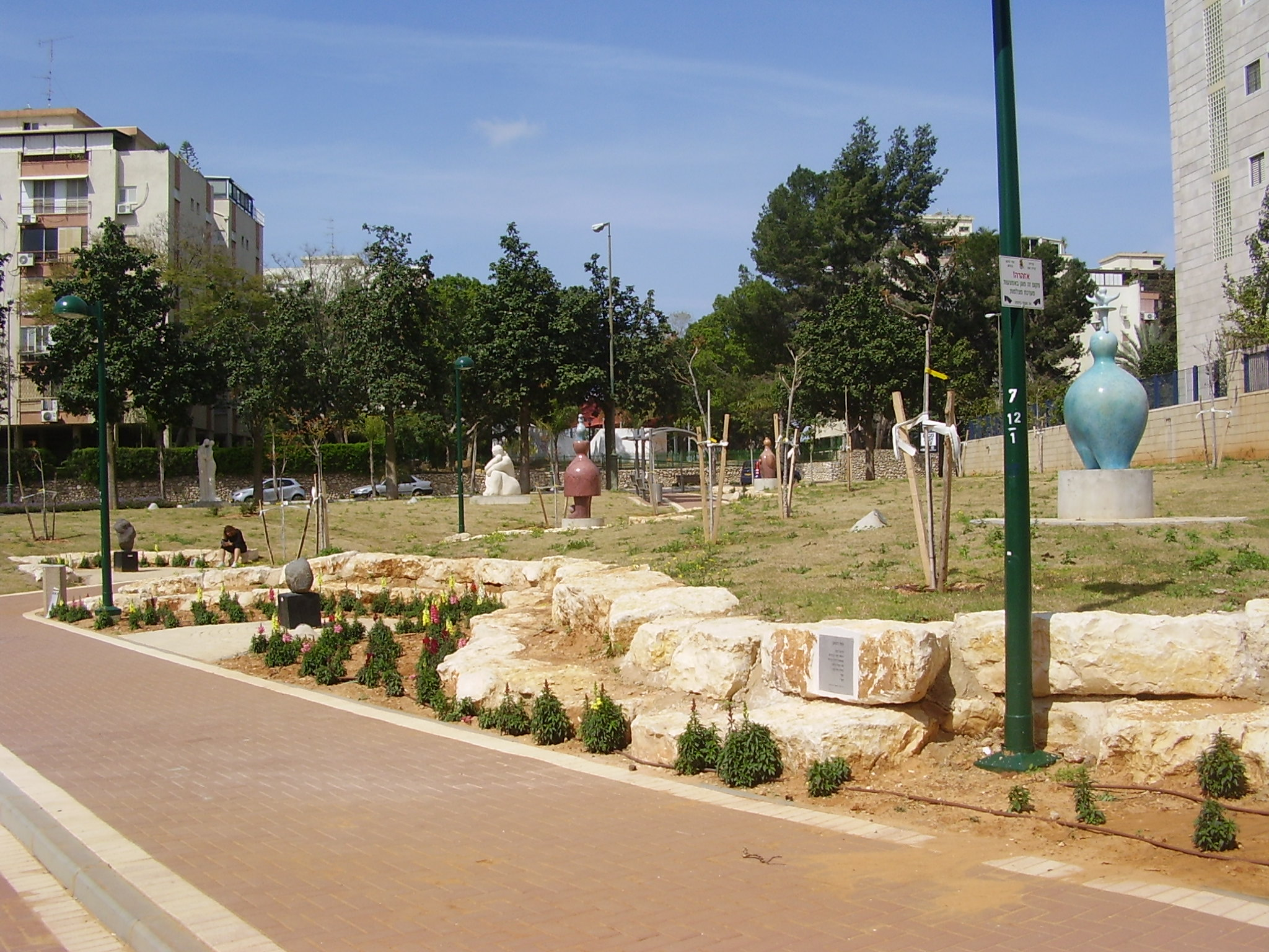 yona wallach sculpture garden in kiryat ono